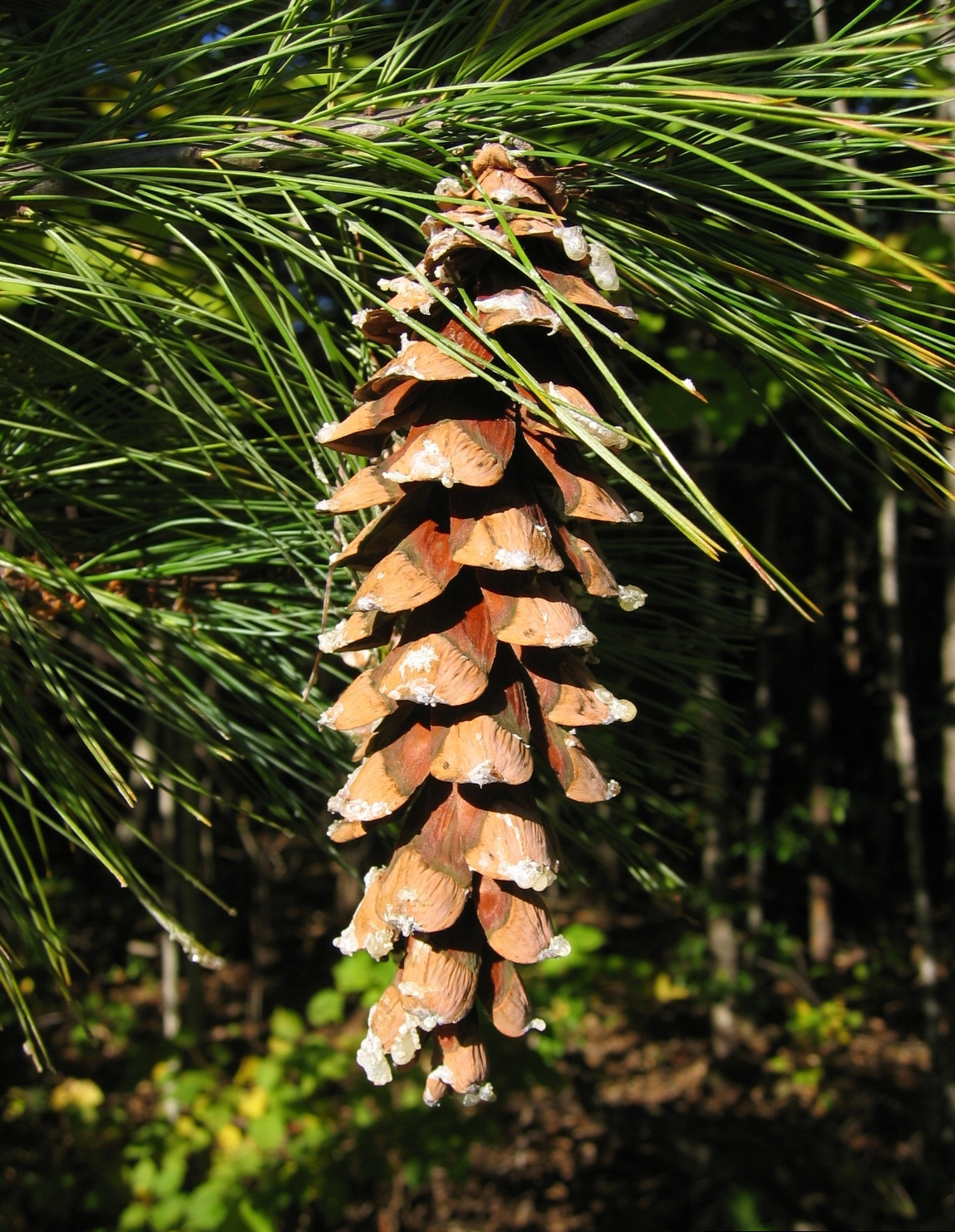 Pinus strobus cone, Maine.